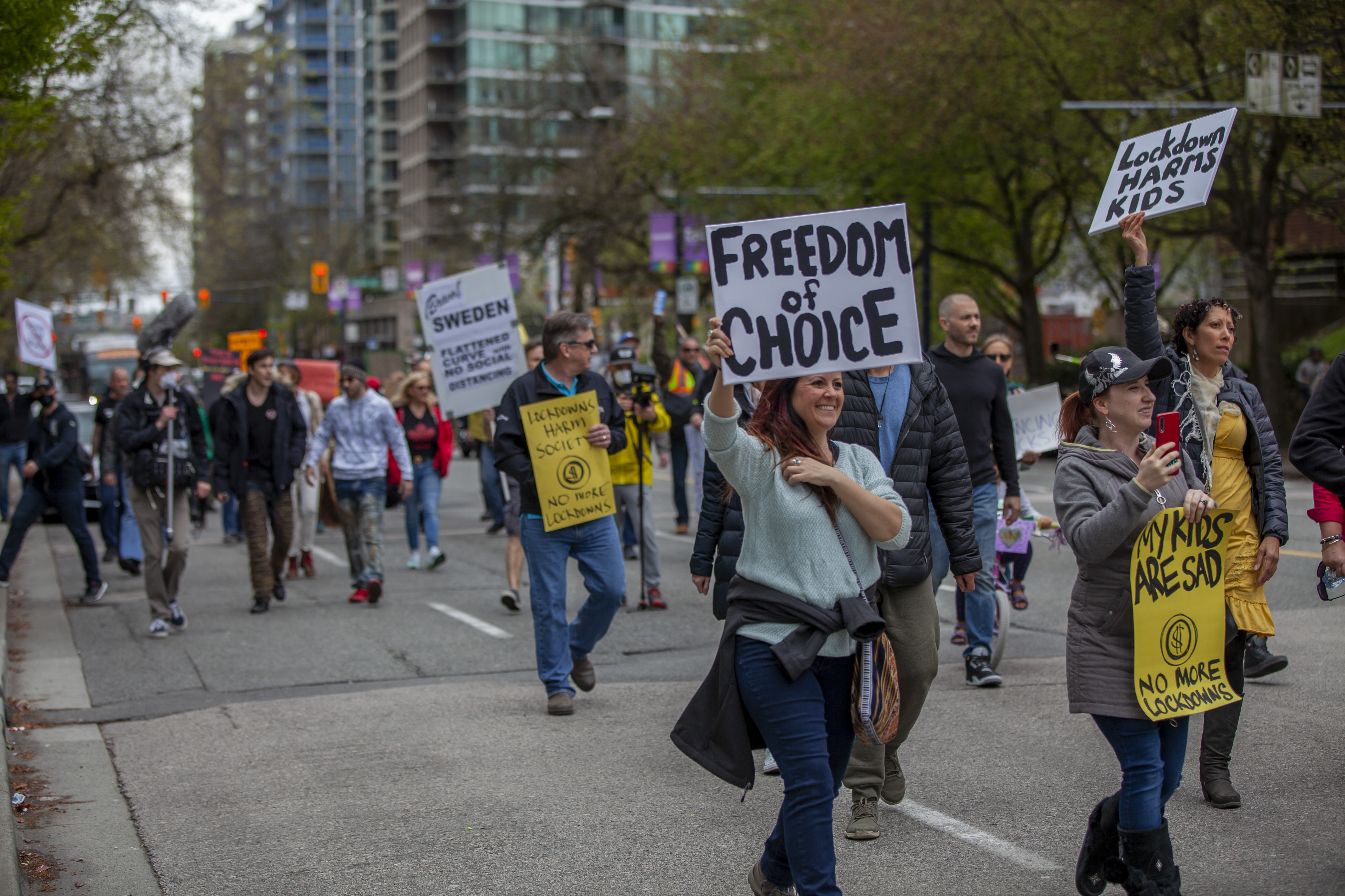 COVID-19 Vancouver's largest protest, April 26th 2020